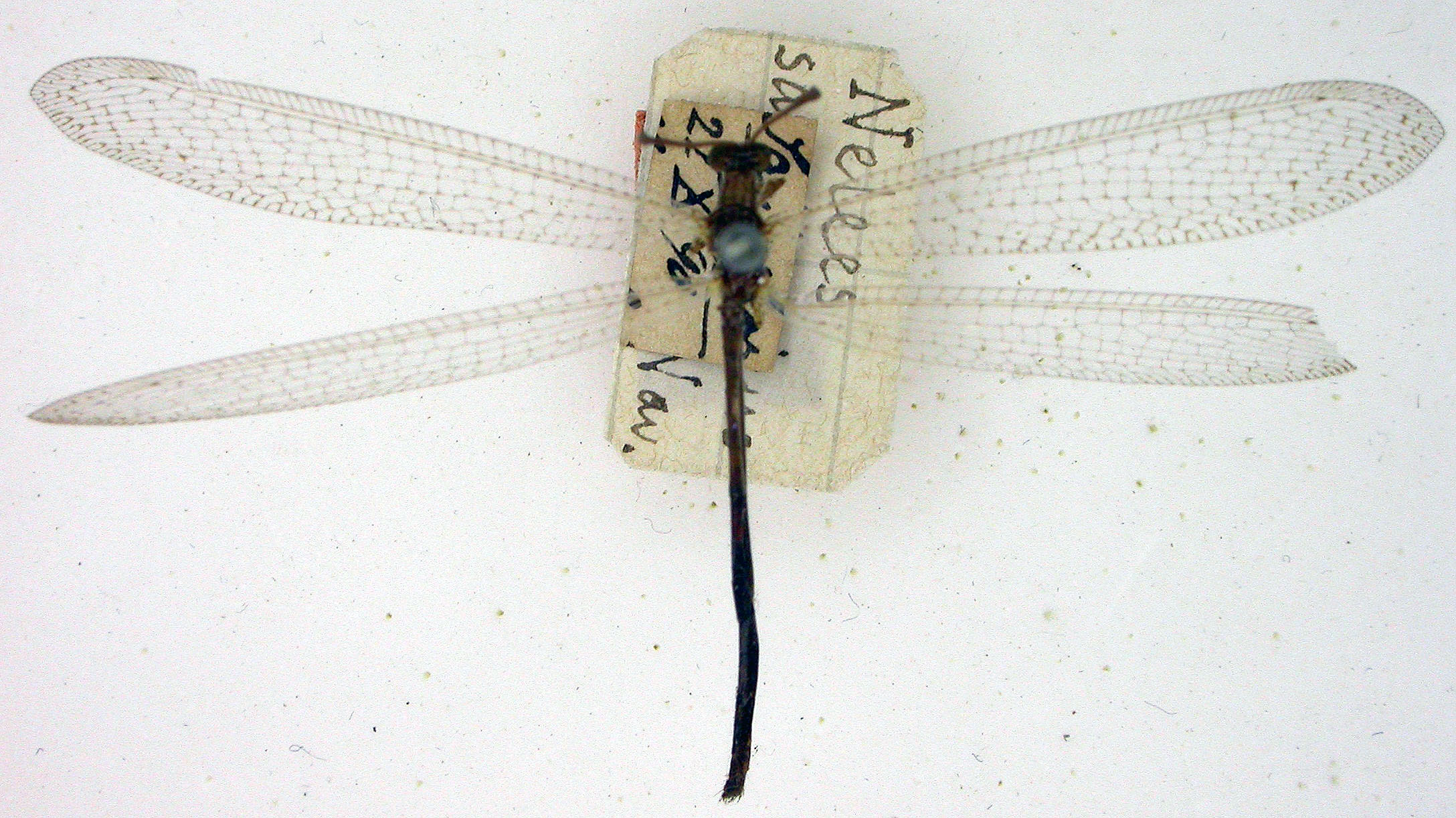 Neuroleon sansibaricus type, stored in ZSM collection, Munich, Neeles sansibaricus, Navás-type